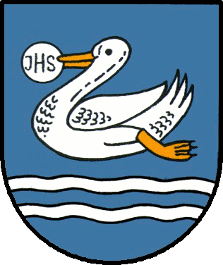 Coat of arms of Auerbach, Upper Austria